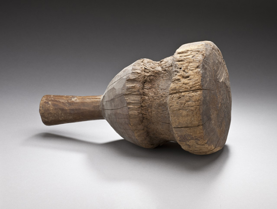 Egypt, New Kingdom, 1550-1070 B.C. Tools and Equipment; mallets Wood 10 5/8 x 5 7/8 in. (27 x 15 cm) Gift of Jerome F. Snyder (M.80.202.287) Egyptian Art Currently on public view: Hammer Building, floor 3